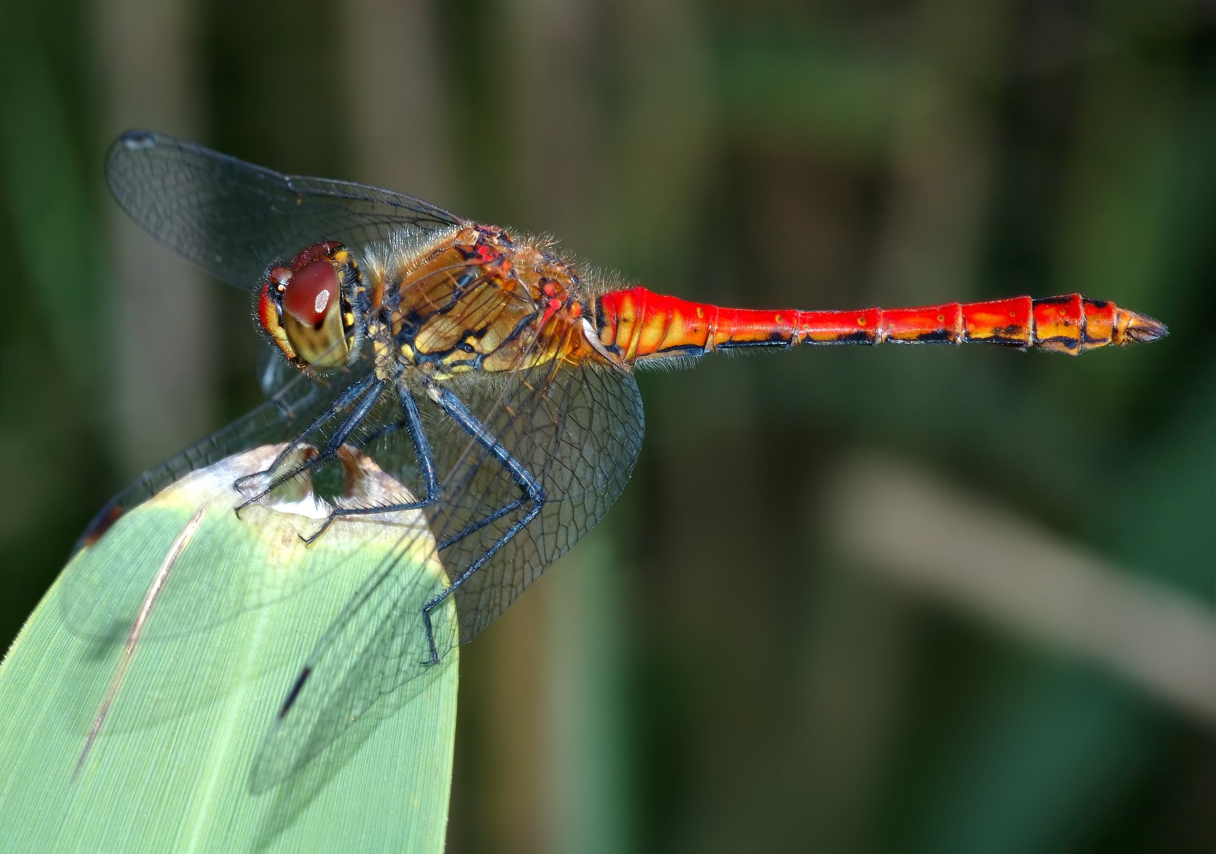 This image shows a male Ruddy Darter (Sympetrum sanguineum) from the side.